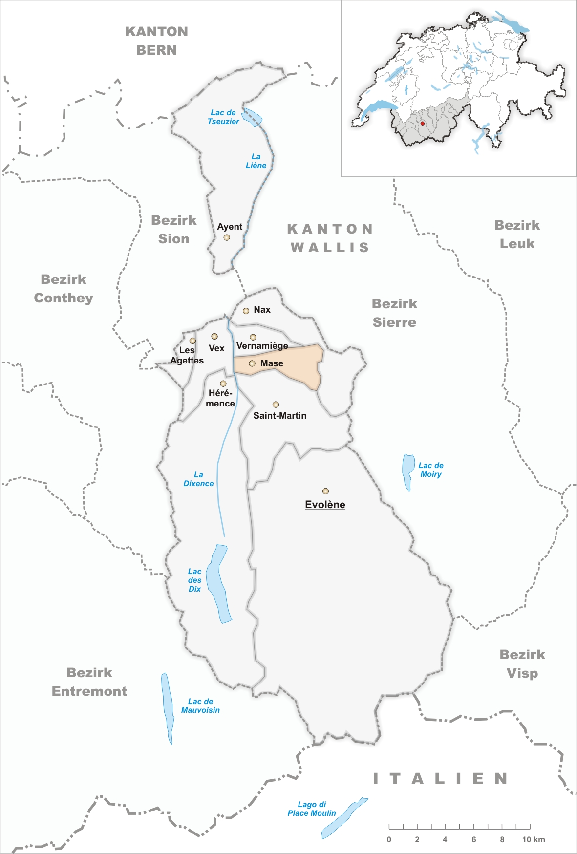 Municipality Mase